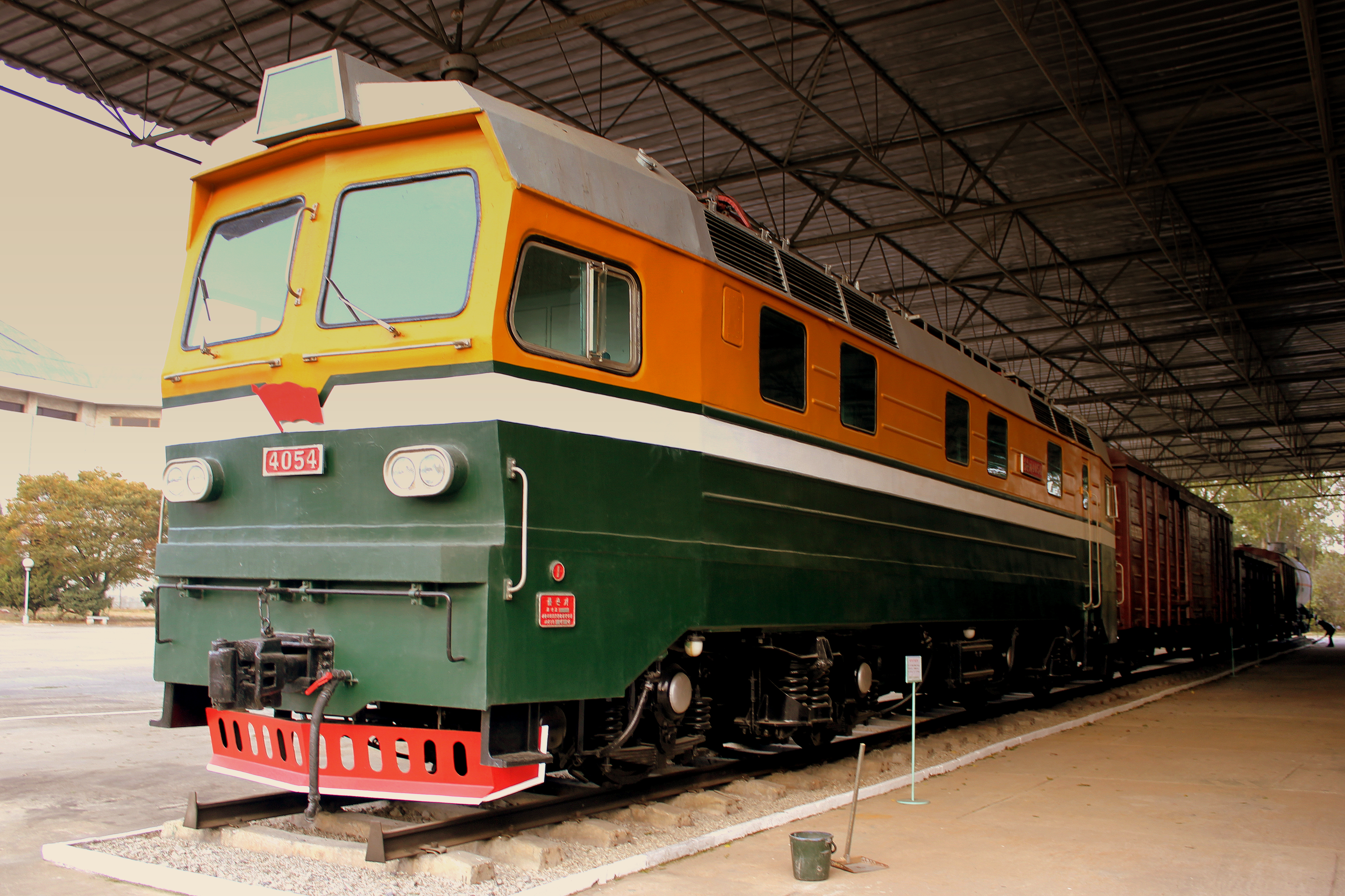 electric locomotive and railcars